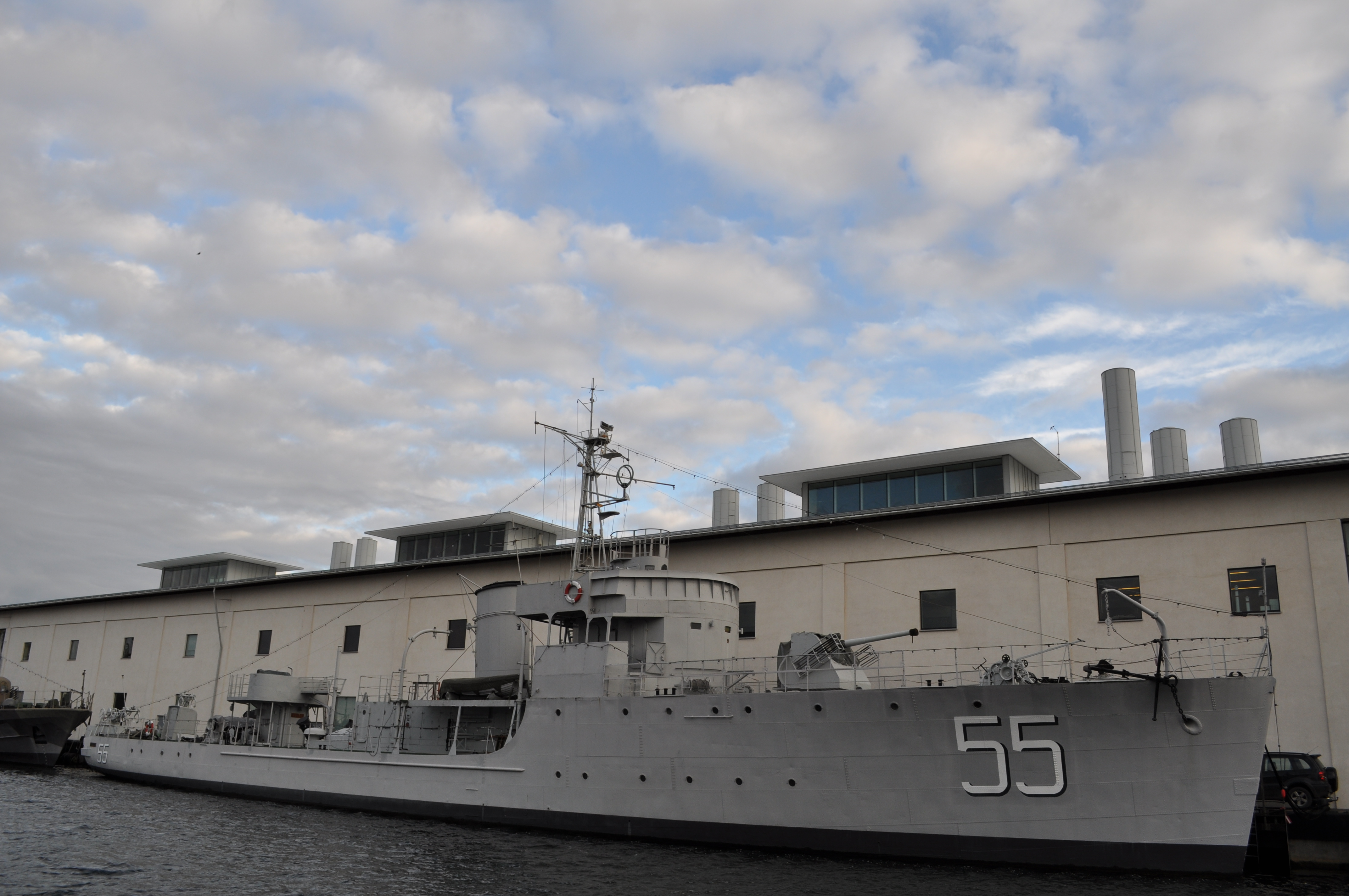 The Swedish minesweeper HMS Bremön (55) at Marinmuseum.